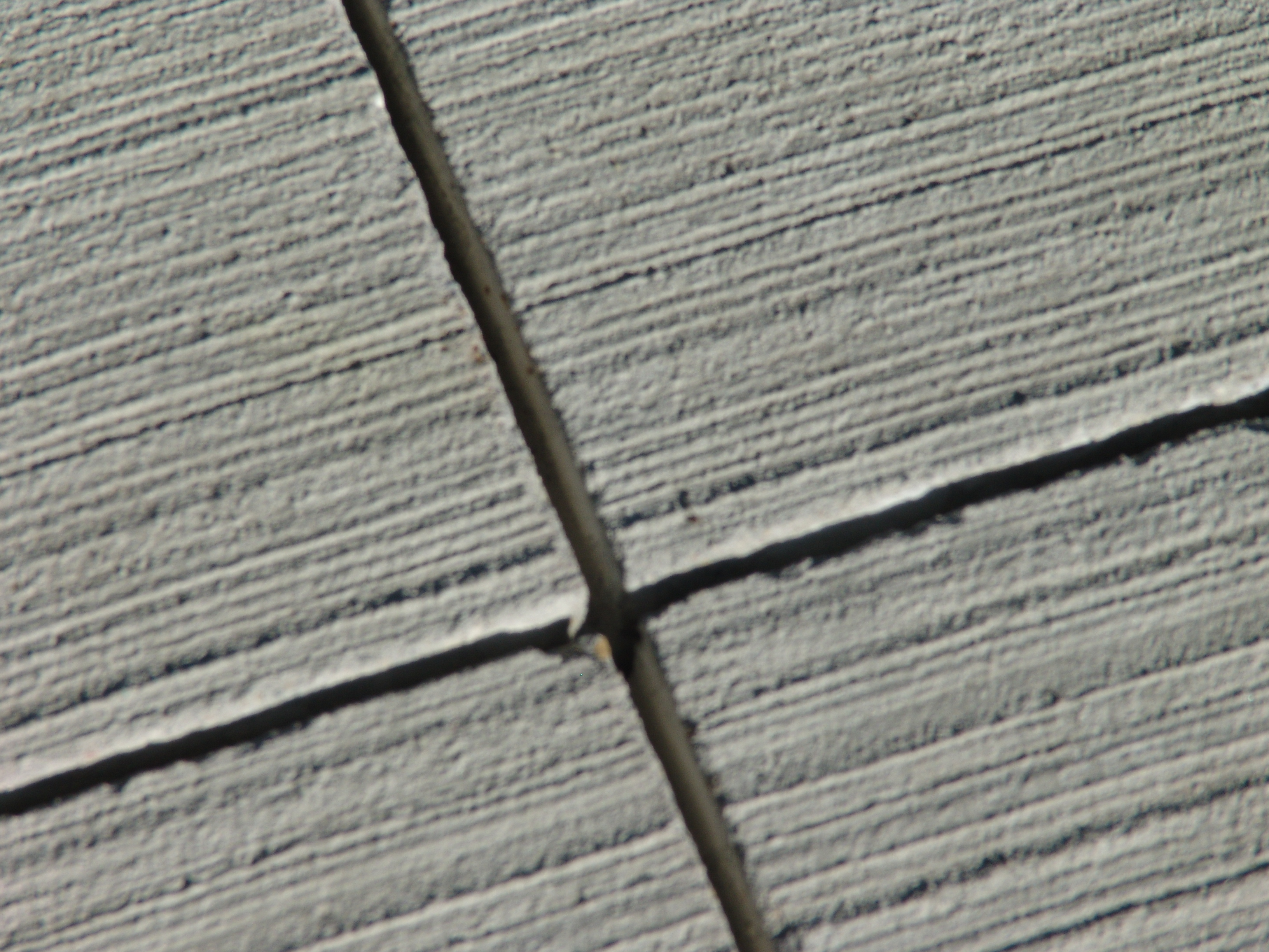 Saw cut control joint in conrete.